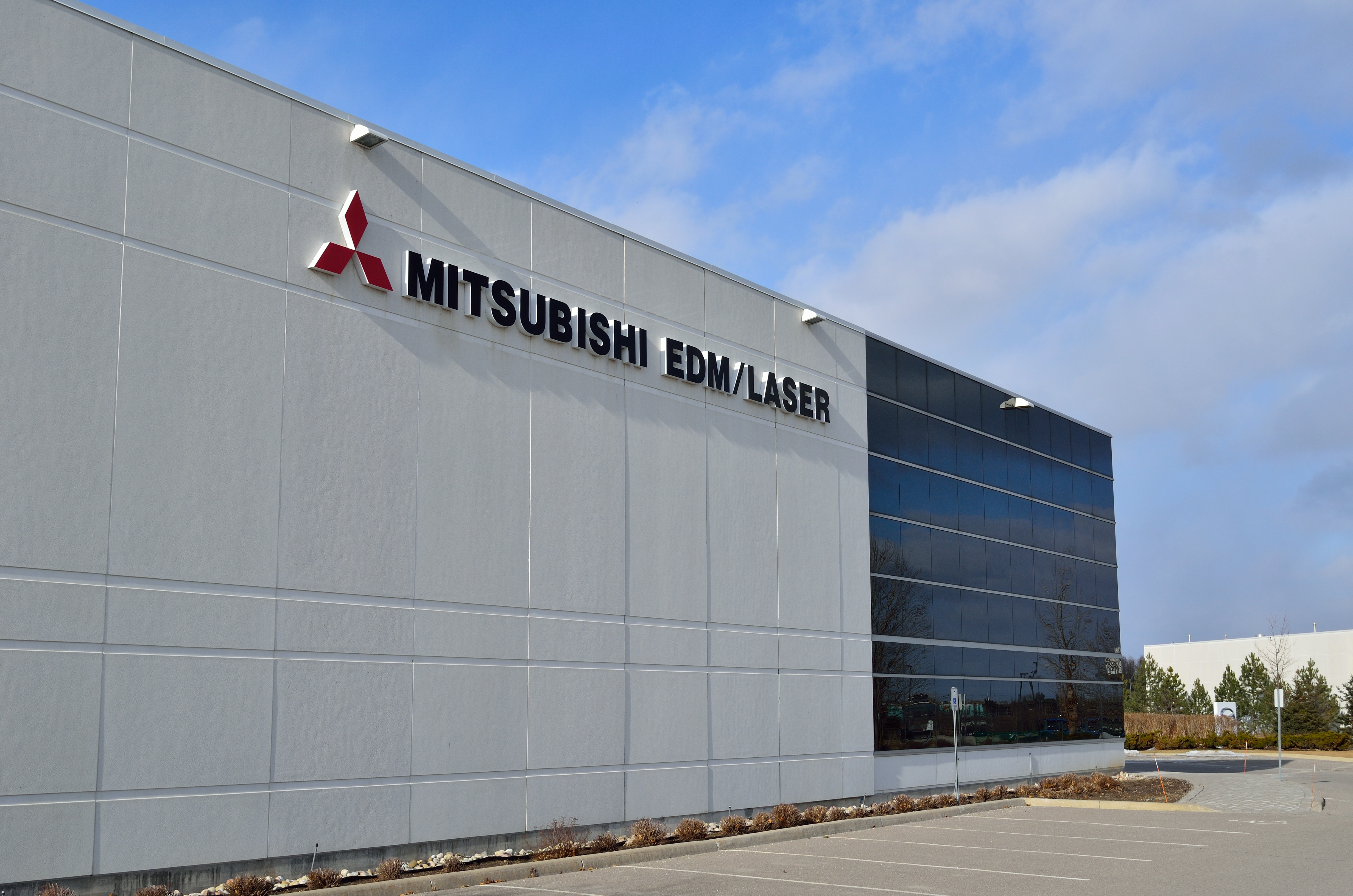 Mitsubishi EDM / Laser - 50 Vogell Road Unit #1, Richmond Hill, ONT L4B 3K6